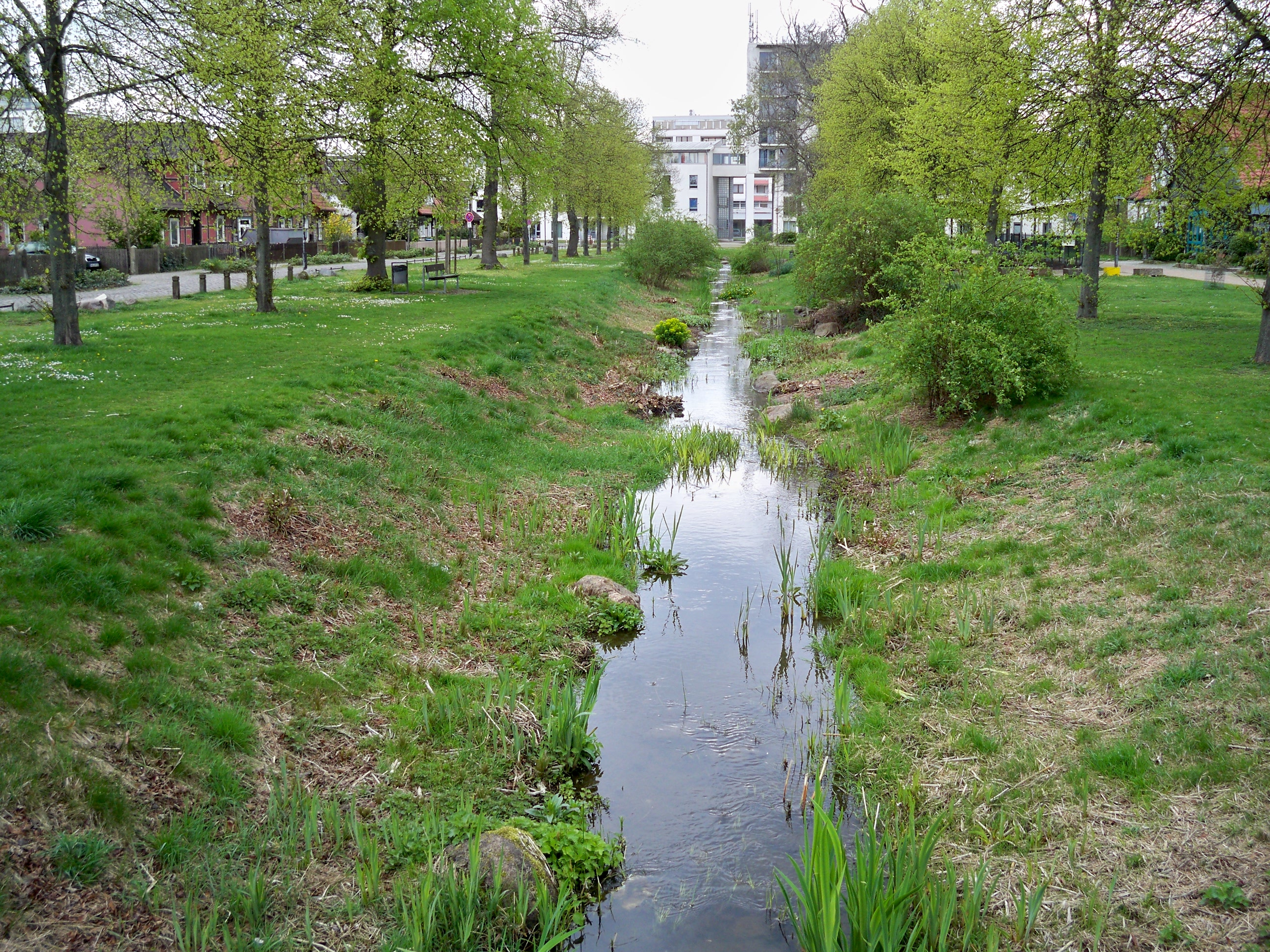 Wolfsburg, Lower Saxony, Hasselbach river in Heßlingen